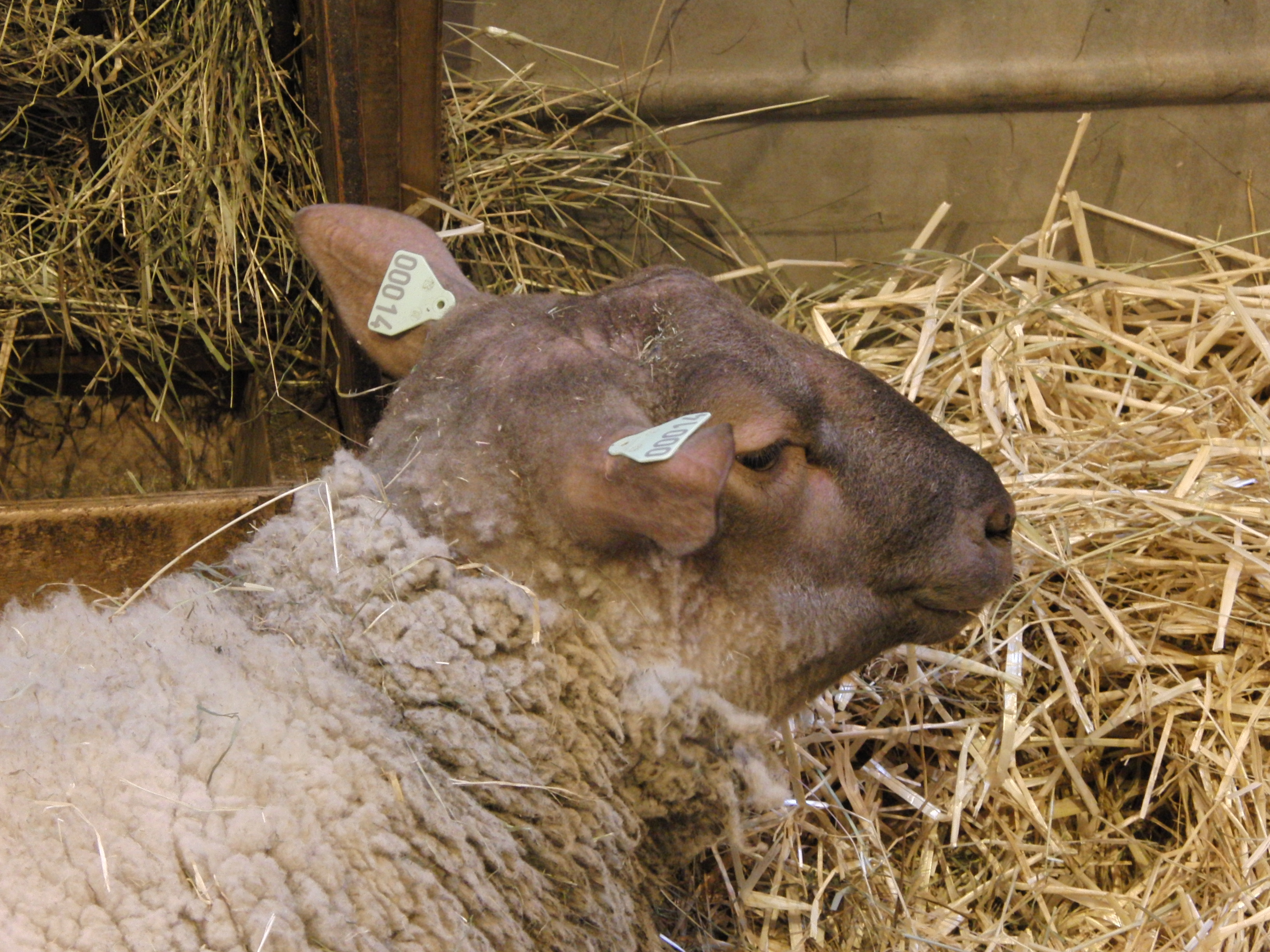 Roussin de la Hague sheep - Salon international de l'agriculture 2011, Paris, France